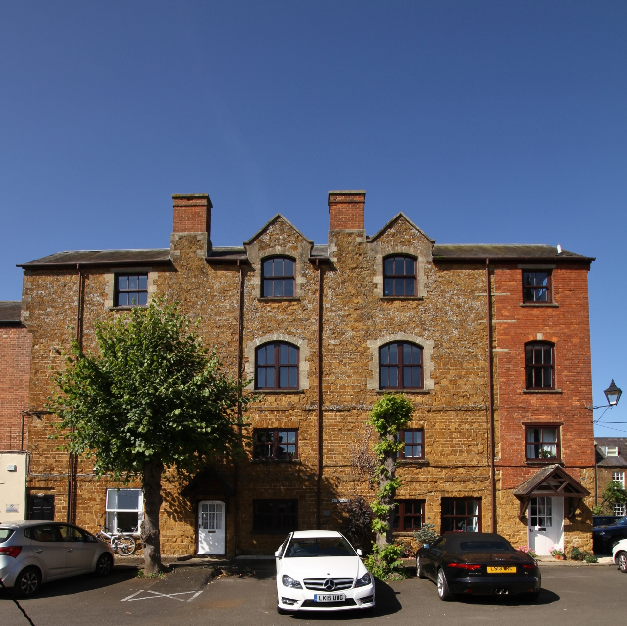 Wychway House, Bull Ring, Deddington, Oxfordshire, seen from the south. Formerly Churchill's Colonial Meat Stores; now an apartment building.